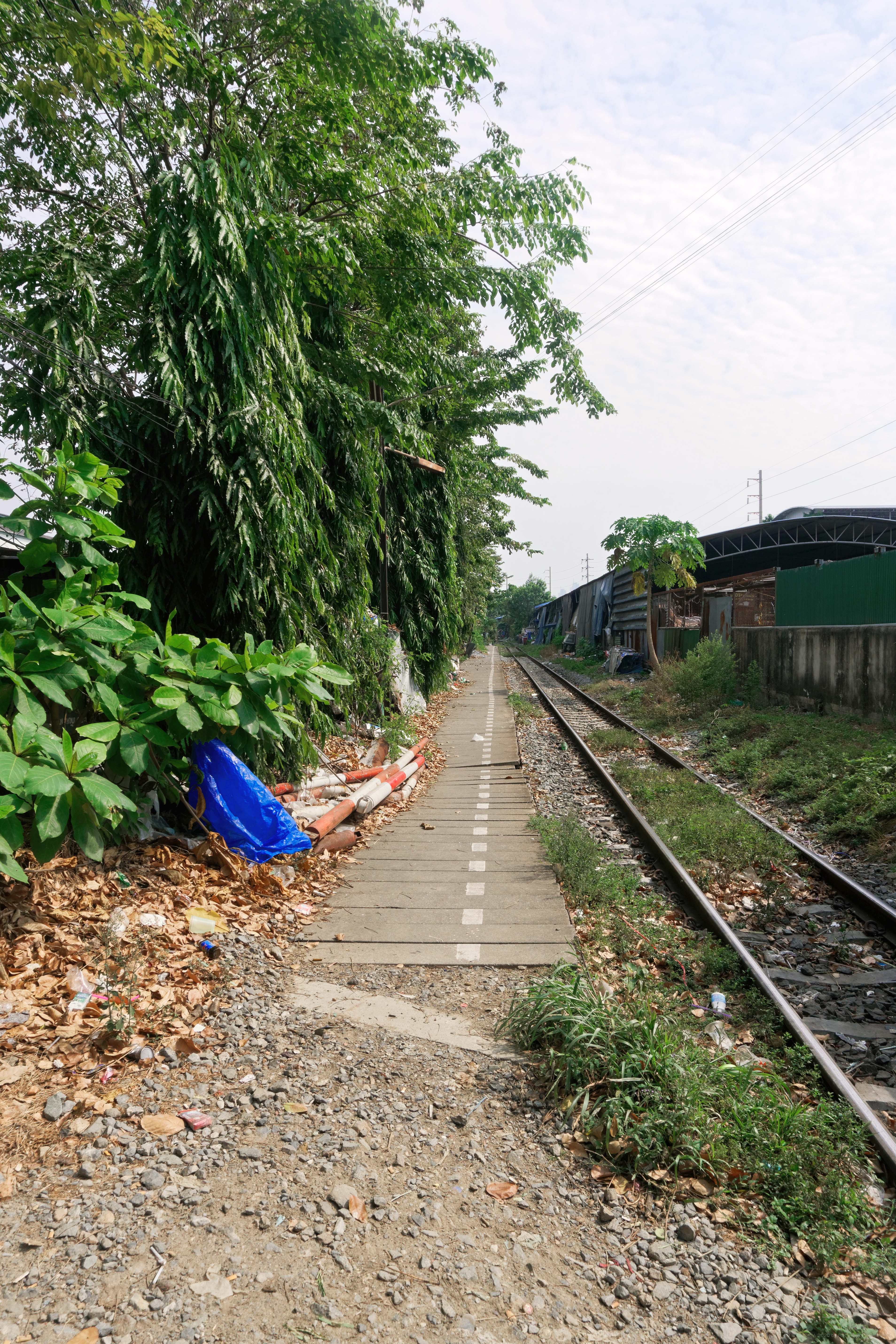 MRT Bang Khun Non – Charansanitwong train stop – platform